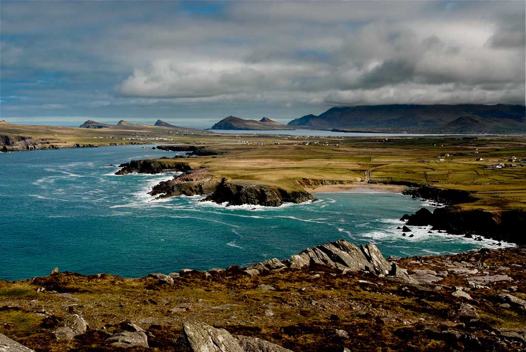 Body of water with the hills of Dingle in the background (Kerry Count, Ireland).